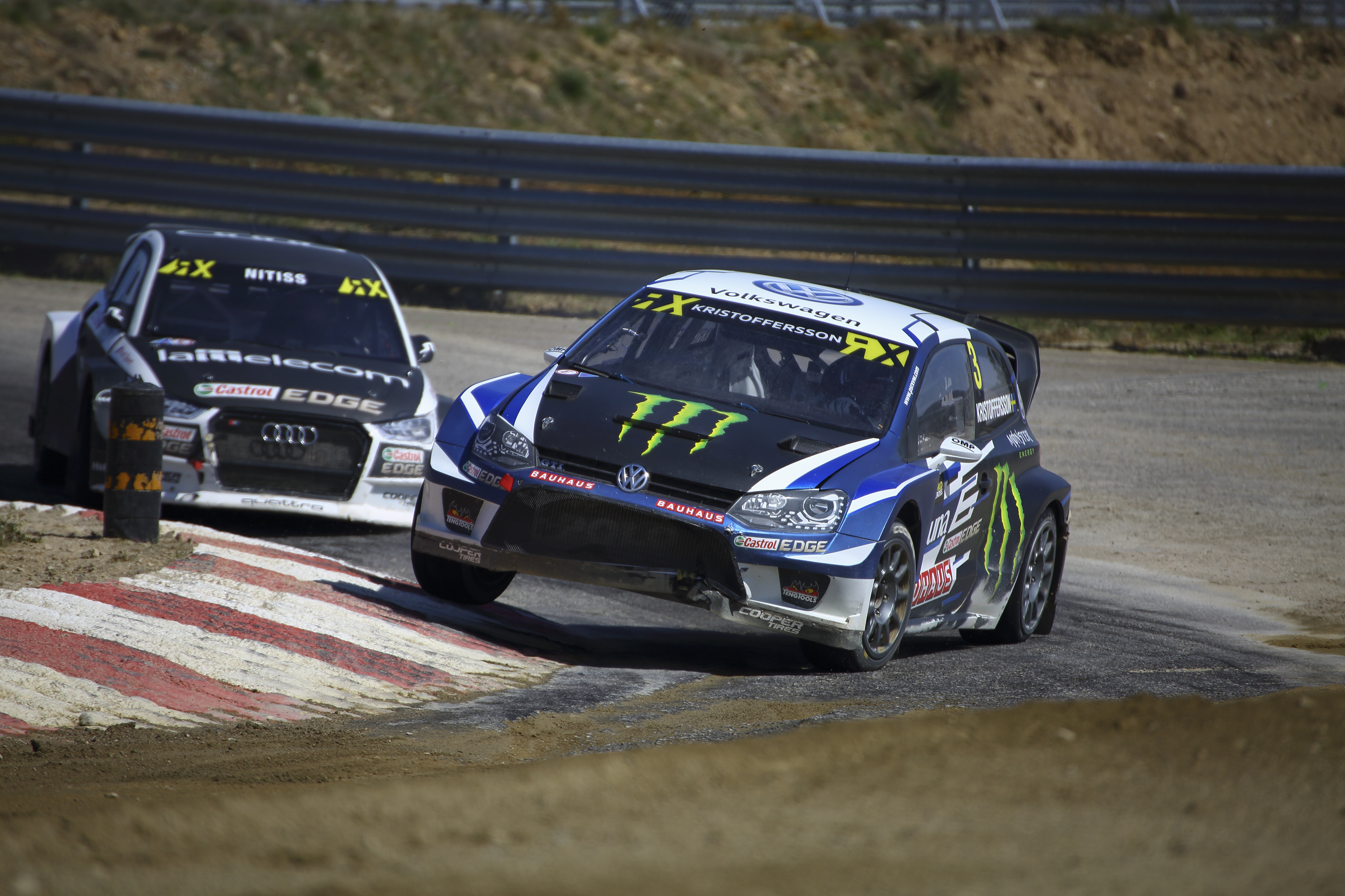 FIA World RX of Portugal 2017 in Montalegre